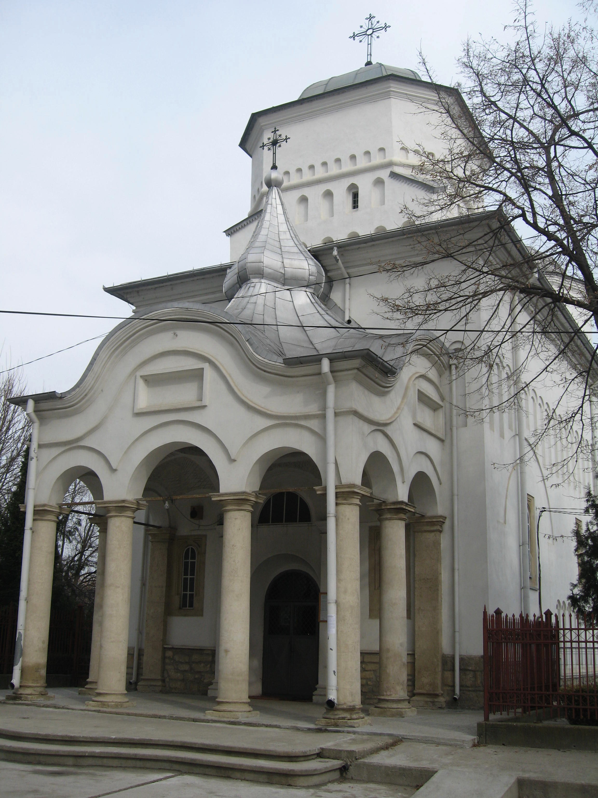 Biserica Barnovschi 01